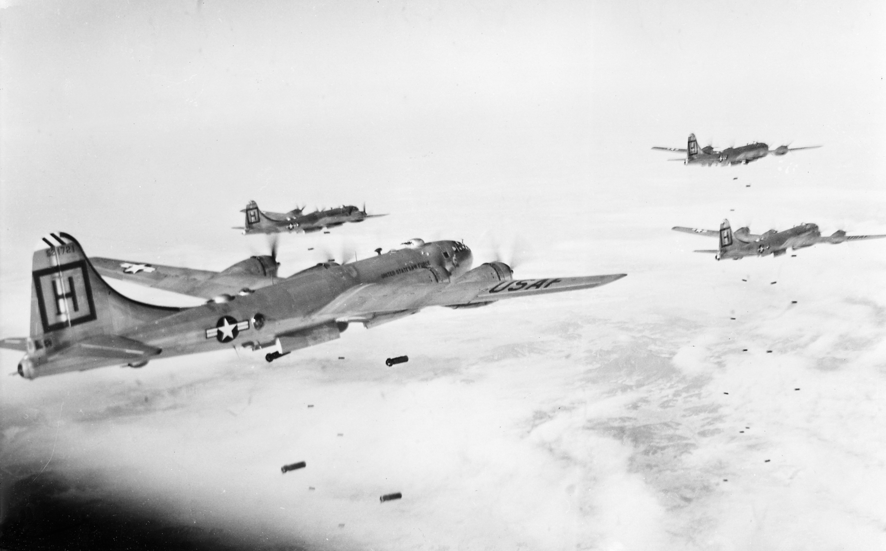 Four U.S. Air Force Boeing B-29 Superfortress bombers from the 98th Bomb Group (Medium) attacking a target in Korea in January 1951. In the foreground is Boeing B-29-90-BW (s/n 45-21721) from the 345th Bombardement Squadron, which crashed after takeoff 8 km north of Yokota Air Base, Japan, on 7 February 1952. The crew of 13 was killed. Original caption: "Bombs fall on Communist hordes in North Korea as mighty bombers of the U.S. Far East Air Forces Bomber Command unleash another of their concentrated attacks on the enemy's supply centers. These bombers are carrying the brunt of the strategic bombing offensive to the Communists. These are B-29 Superfortresses, famous for their remarkable results in the Korean fighting., 01/30/1951"